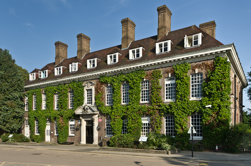 Batchwood Hall